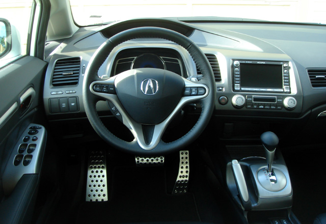 Interior of 2008 Acura CSX Tech